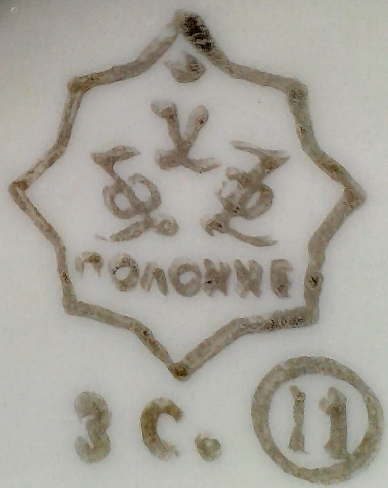 The brand of Polonsky porcelain factory. Ukrainian SSR (USSR). 1940s years